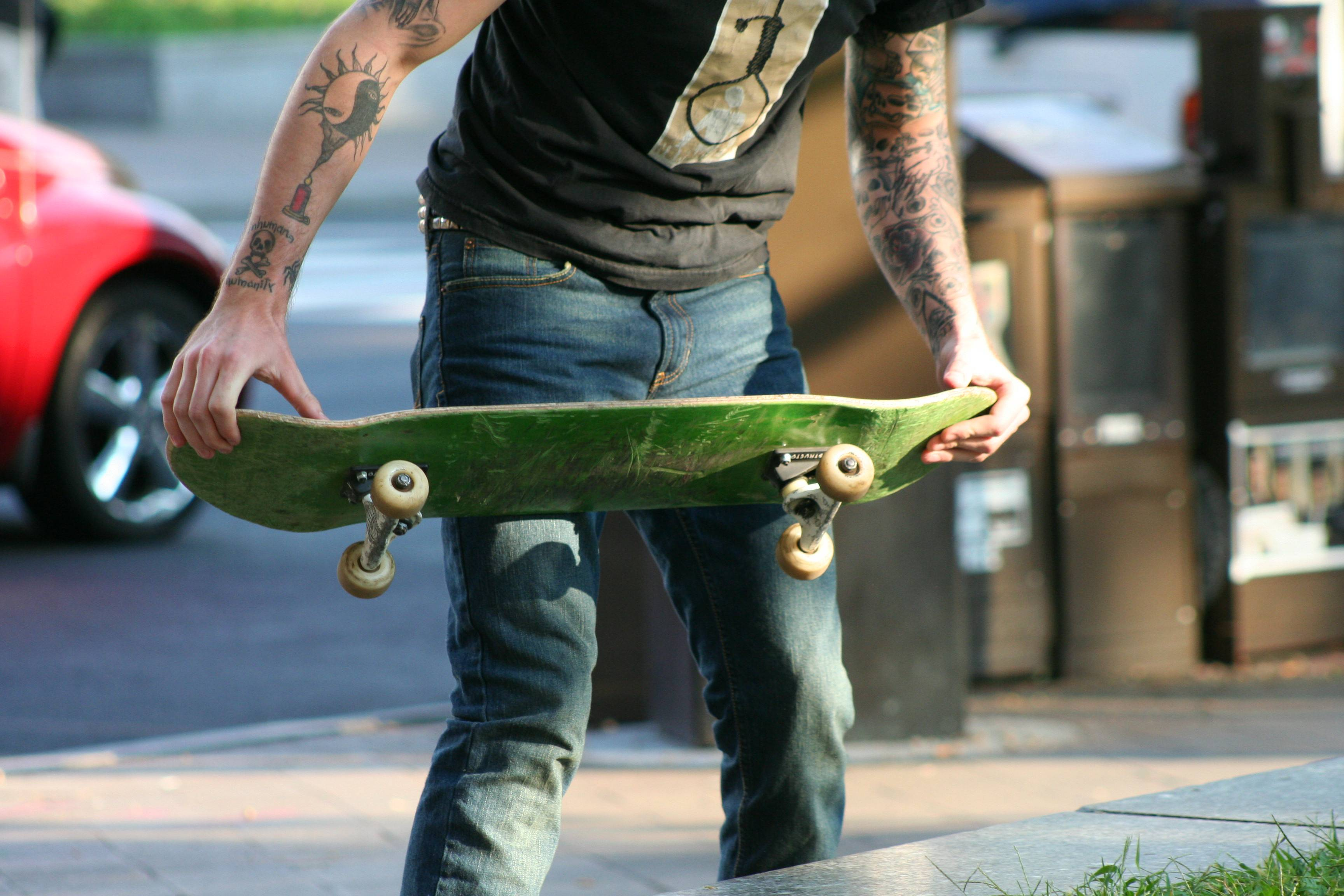 Sk8r with tattoo'd arms . Penn Quarter . 7th Street near Pennsylvania Avenue, NW, WDC . Sunday evening, 21 September 2008 . . Elvert Xavier Barnes Photography